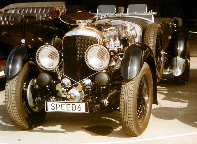 Bentley 6½-Litre Speed Six Tourer